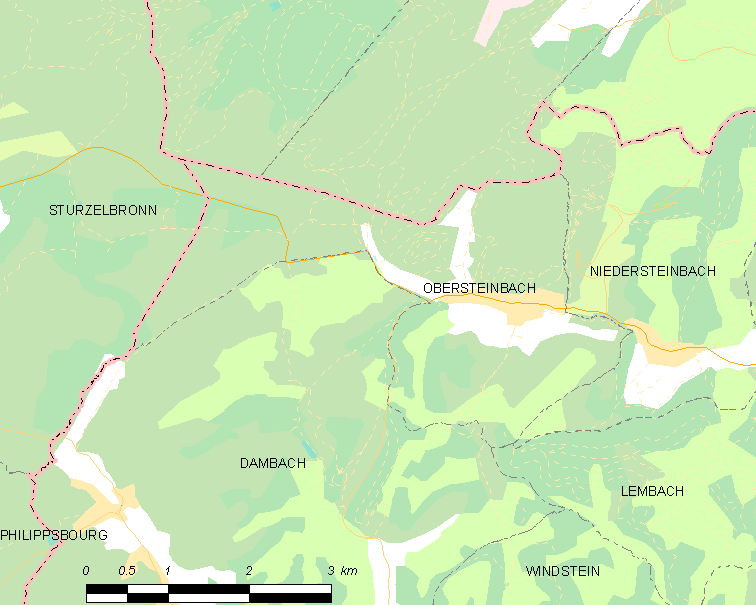 Map of French municipality